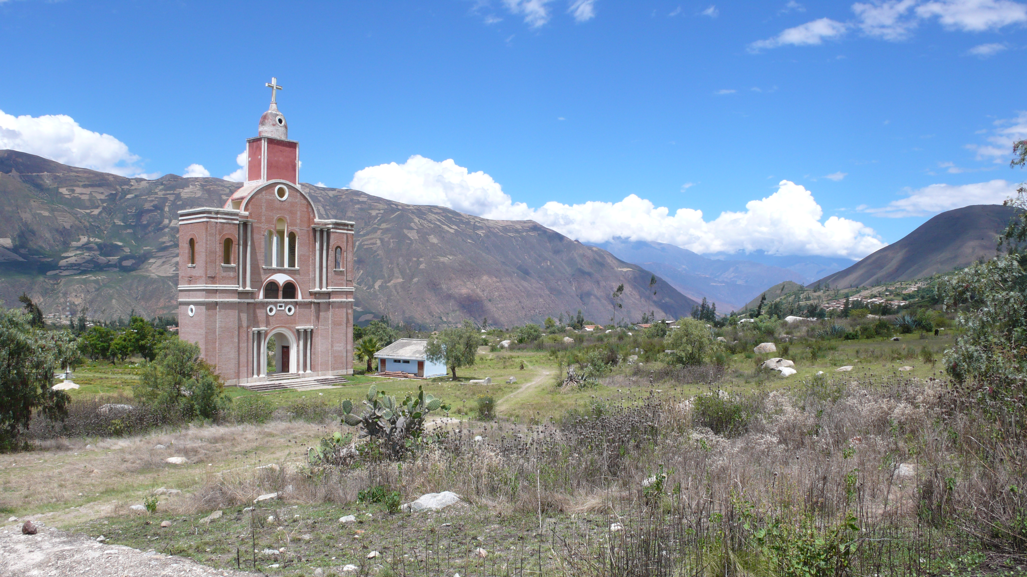 View on the Yungay memorial, Ancash, Peru